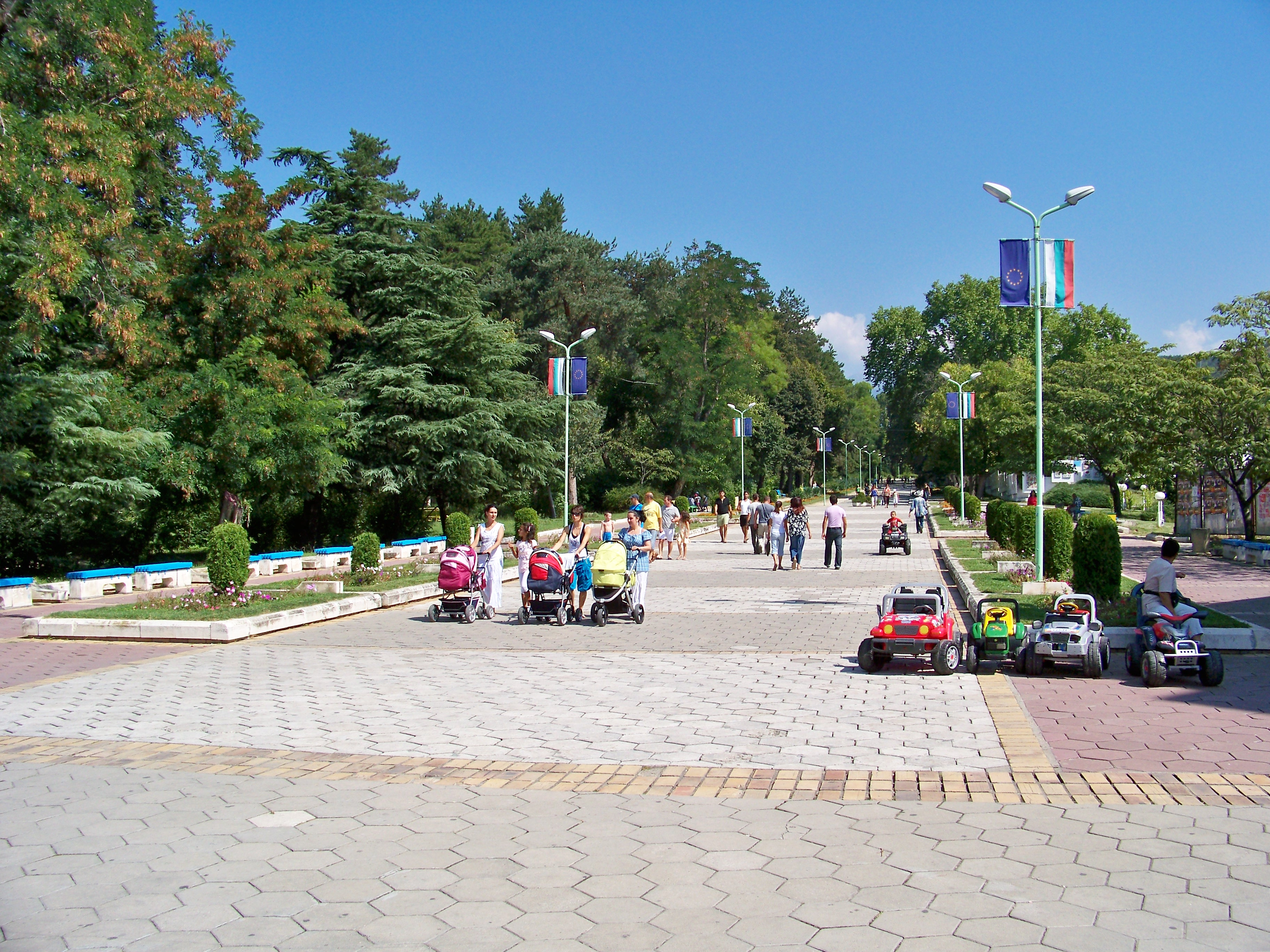 Sandanski (Bulgarian: Сандански, formerly, until 1949 Свети Врач, Sveti Vrach) is a town and a recreation centre in south-western Bulgaria, part of Blagoevgrad Province.